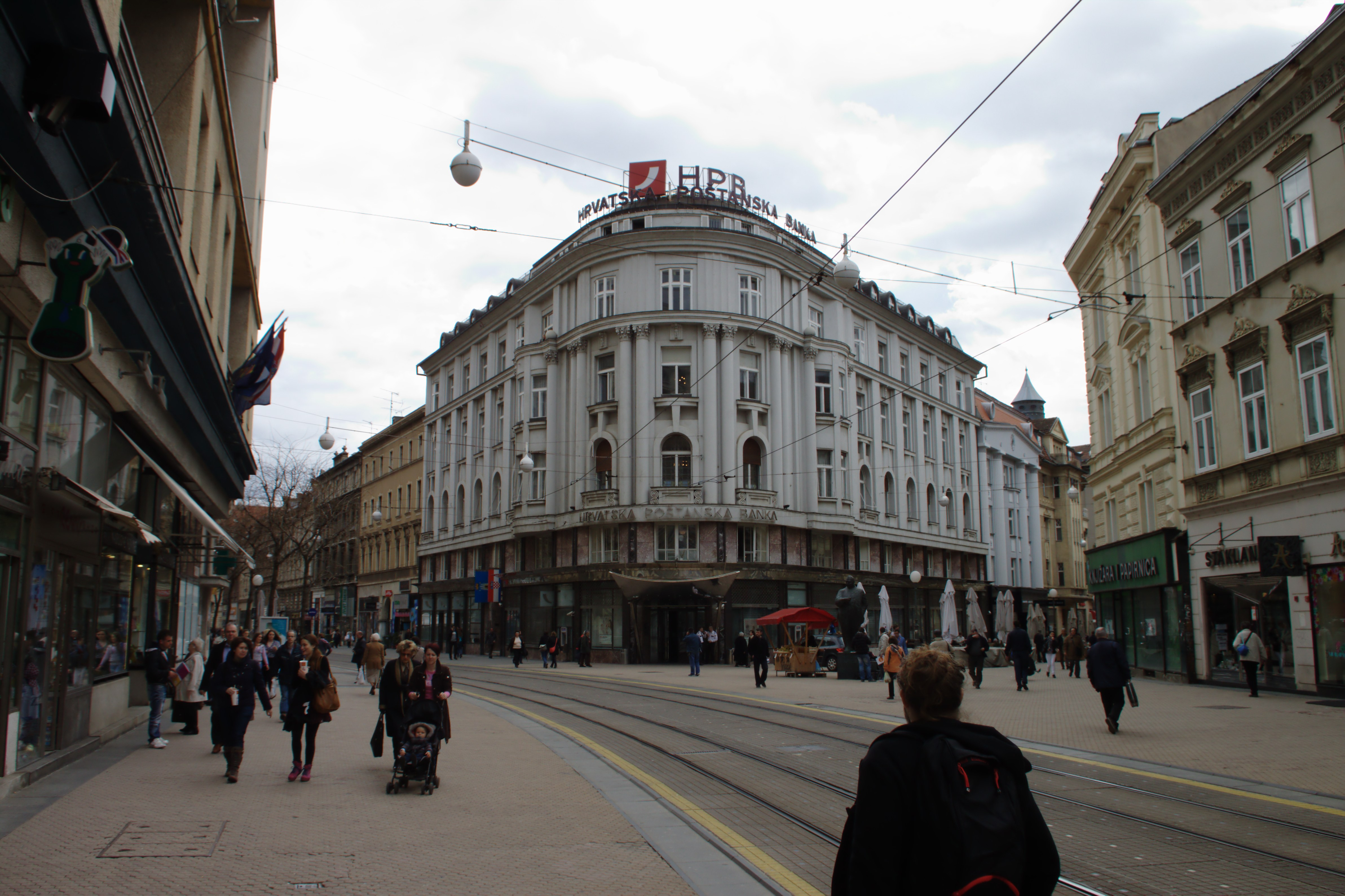 NW corner of Josip Jelačić Square in Zagreb, Croatia